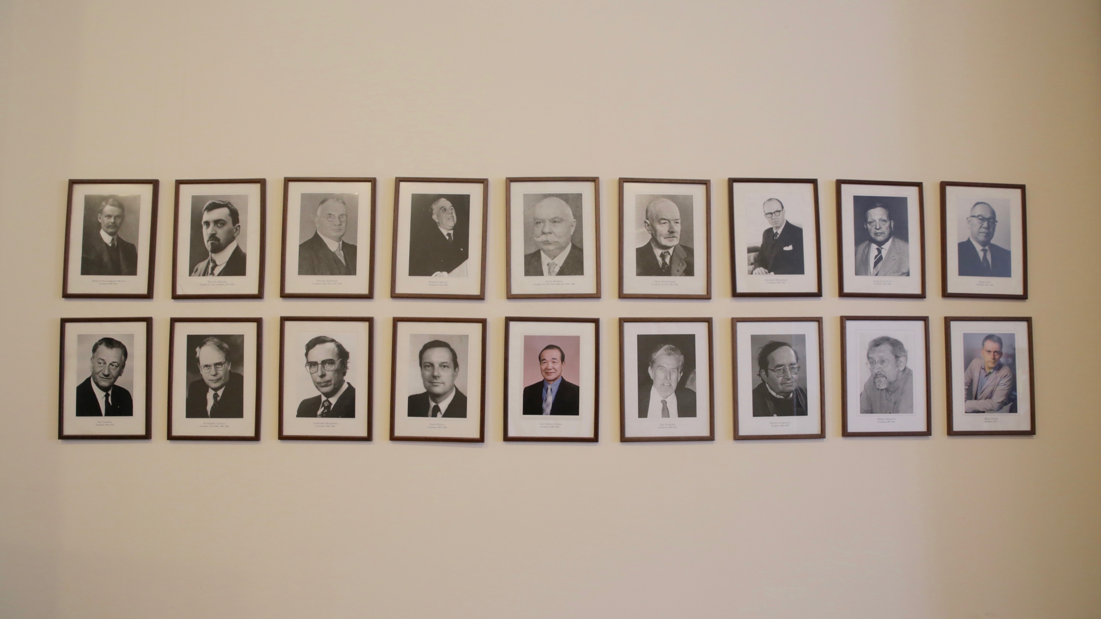 Pictures of every president of the World Esperanto Association from its foundation until 2016, on a wall in the Central office of the Association.